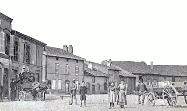 57640 vigy France